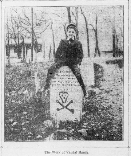 Playing in the ruins of the old Presbyterian cemetery, Georgetown, 1903. The site, bounded by 33rd, 34th, Q St. and Volta Pl., is now the Georgetown Recreation Center. Geotagged. The 4/19/03 "Washington Times" reported, "Noisy urchins ... have broken down the tombstones ... some of them, apparently with the artistic instincts of the savage, have scrawled rude skulls and cross-bones upon the monuments and have lettered in black paint filthy legends that seem humorous to vicious minds." The stone pictured appears to be for William T. Webster.